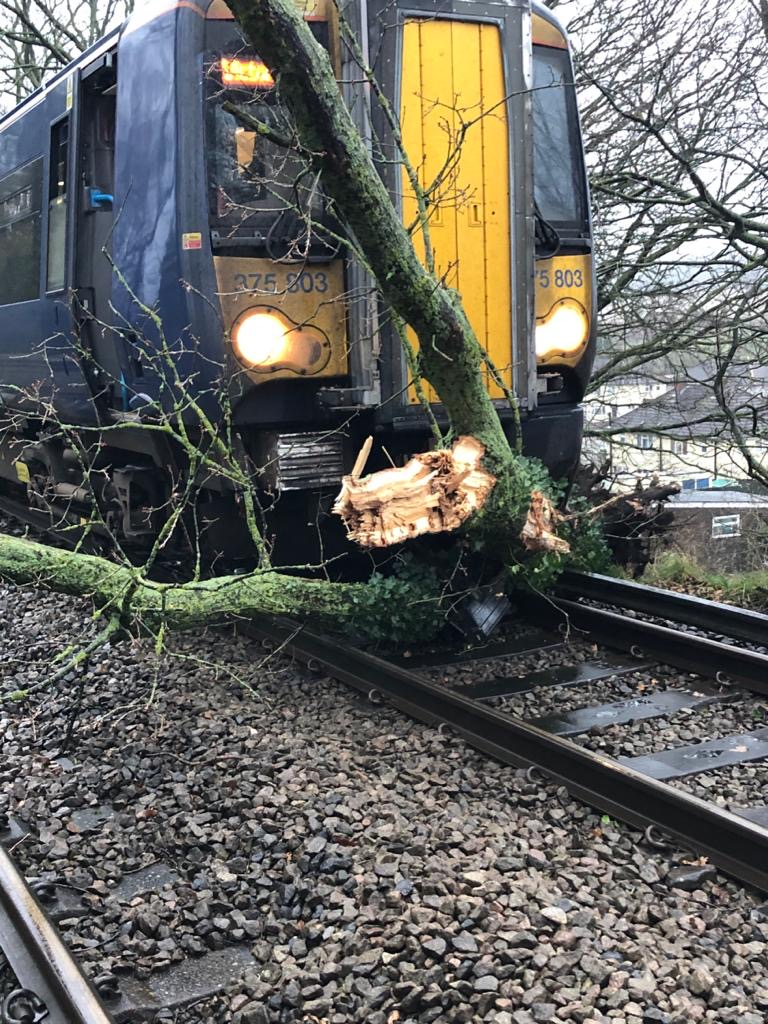 Trees and branches from neighbouring properties can fall into the path of trains during extremely high winds. Trains observe speed restrictions during storms for this reason. This train was the 14:14 Faversham to Victoria.